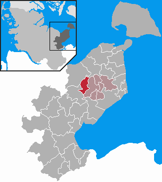 This map shows the area of the Gemeinde (municipality) Harmsdorf in the Kreis (district) Ostholstein, Schleswig-Holstein, Germany.